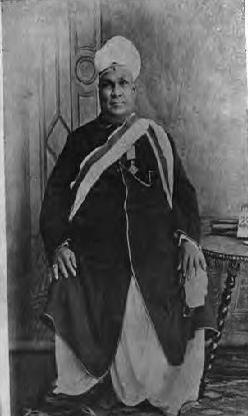 Sehsayya sanstri, the divan of travancore